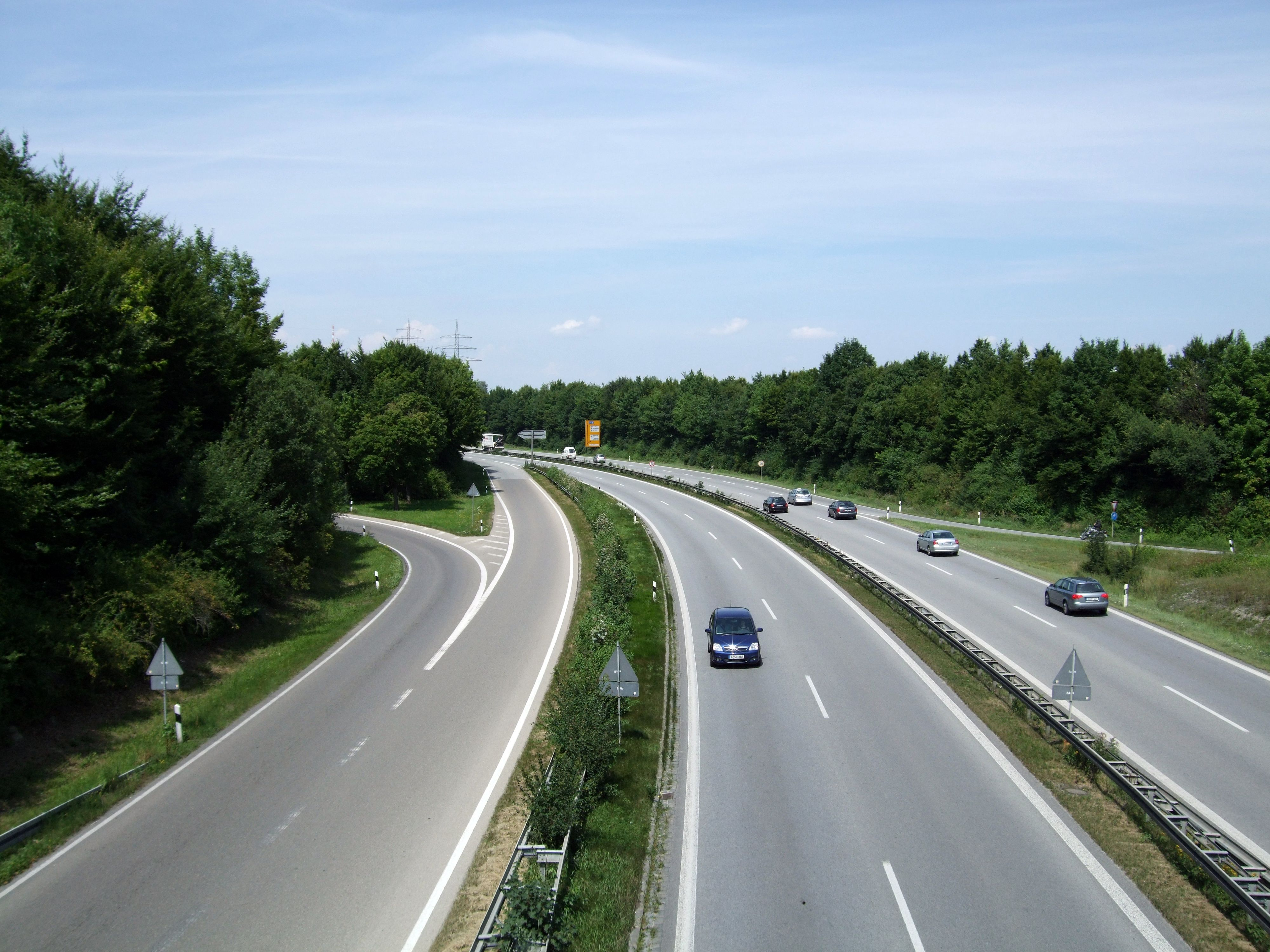 Augsburg – View from a bridge (Rumplerstraße/Friedrich-Ebert-Straße) on the B 17/B 300, north-bound.